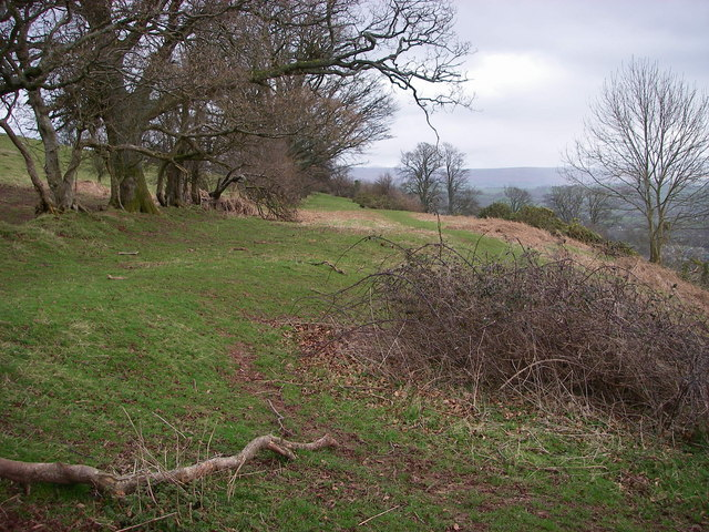 Slwch Tump This level bench in the hillside is the southern edge of the hillfort which sits above and immediately east of Brecon/Aberhonddu. It is one of three hillforts which surround the town. Slwch Tump and the one at Pen-y-crug SO0230, SO0330are accessible by public rights of way.